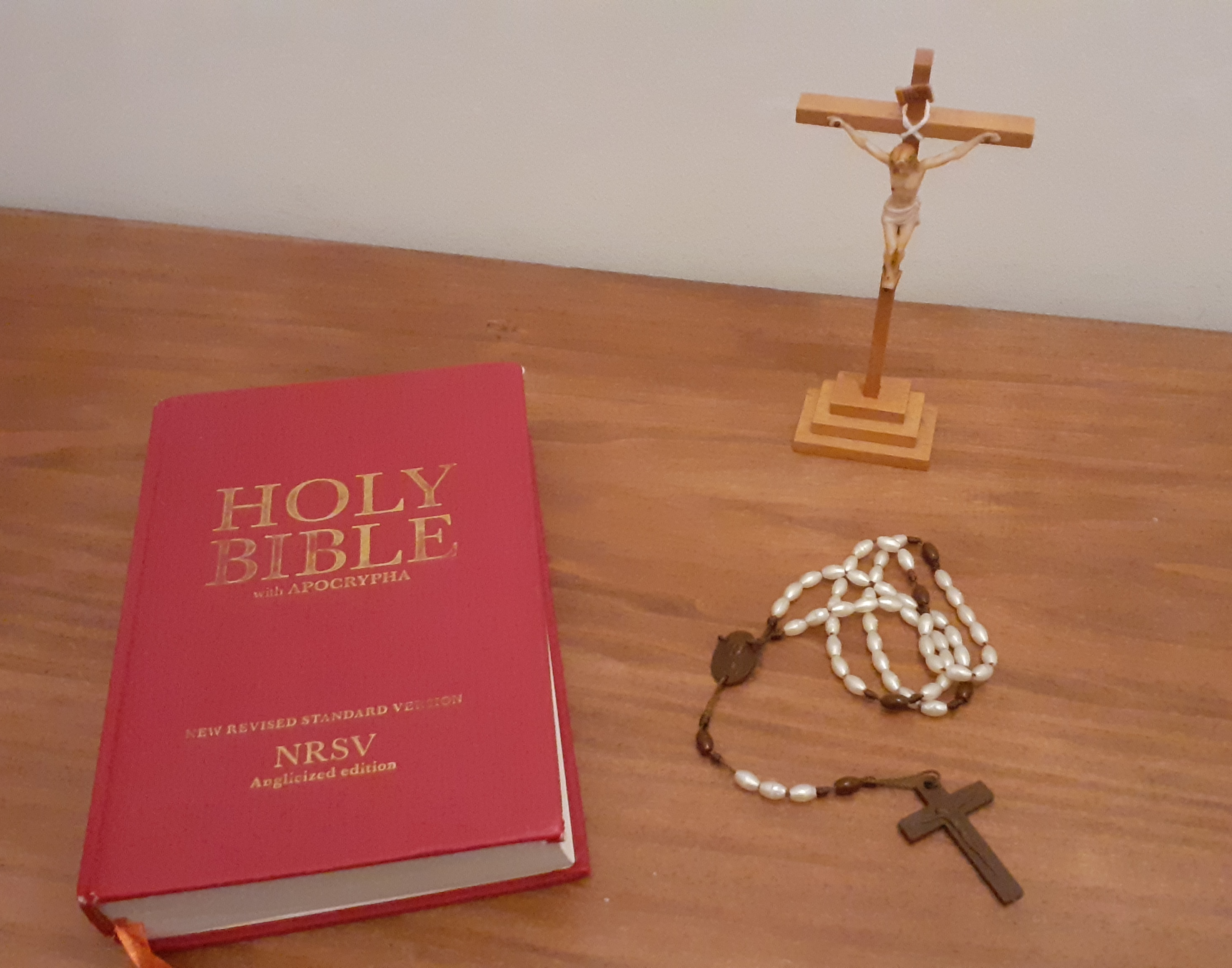 A small wooden crucifix (repaired using string) with a base, a plastic rosary and a Holy Bible with Apocrypha, New Revised Standard Version